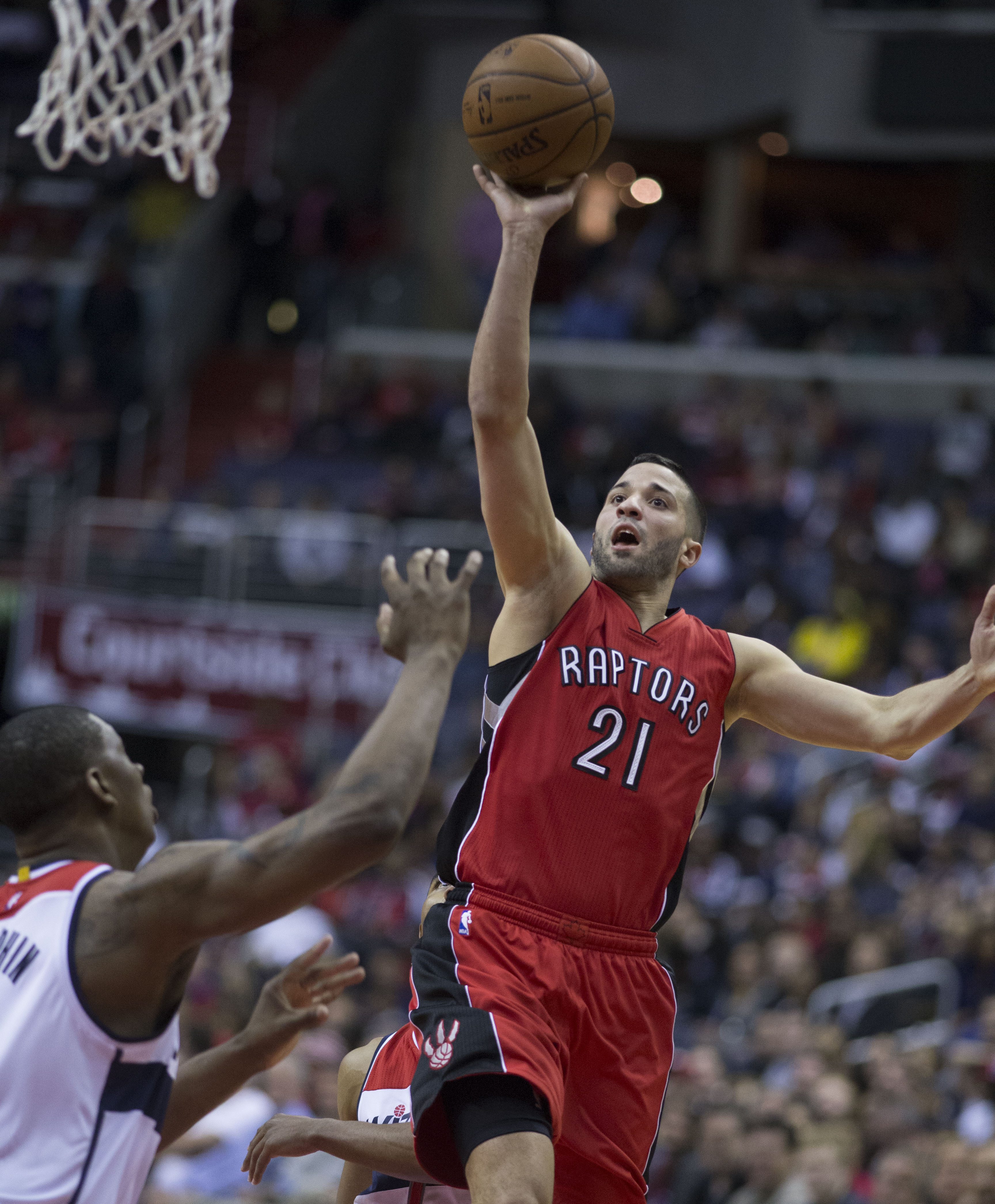 Toronto at Washington 04/26/15